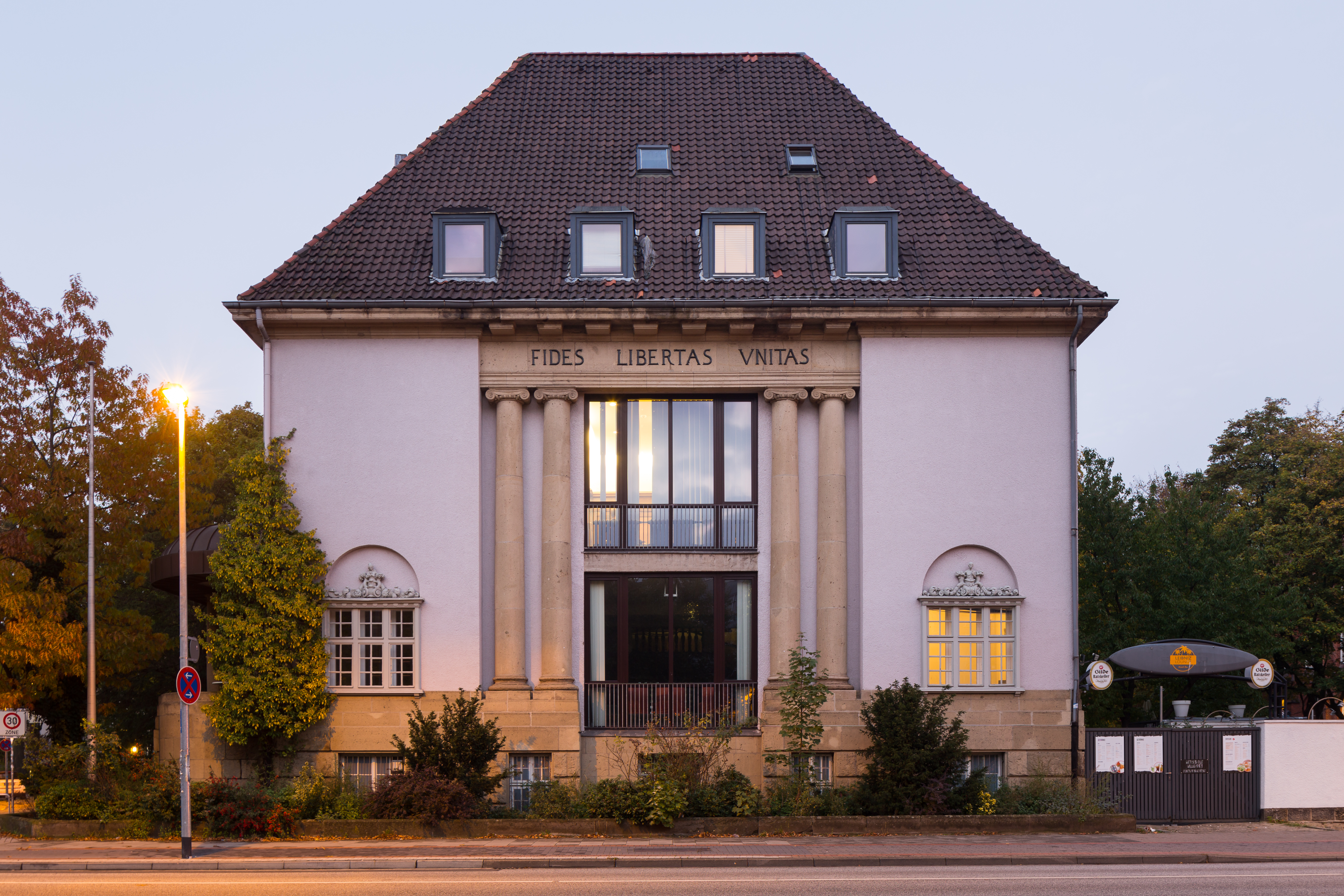 Fraternity's building located at Wilhelm-Busch-Strasse no. 2 and Nienburger Strasse in Nordstadt quarter of Hannover, Germany.